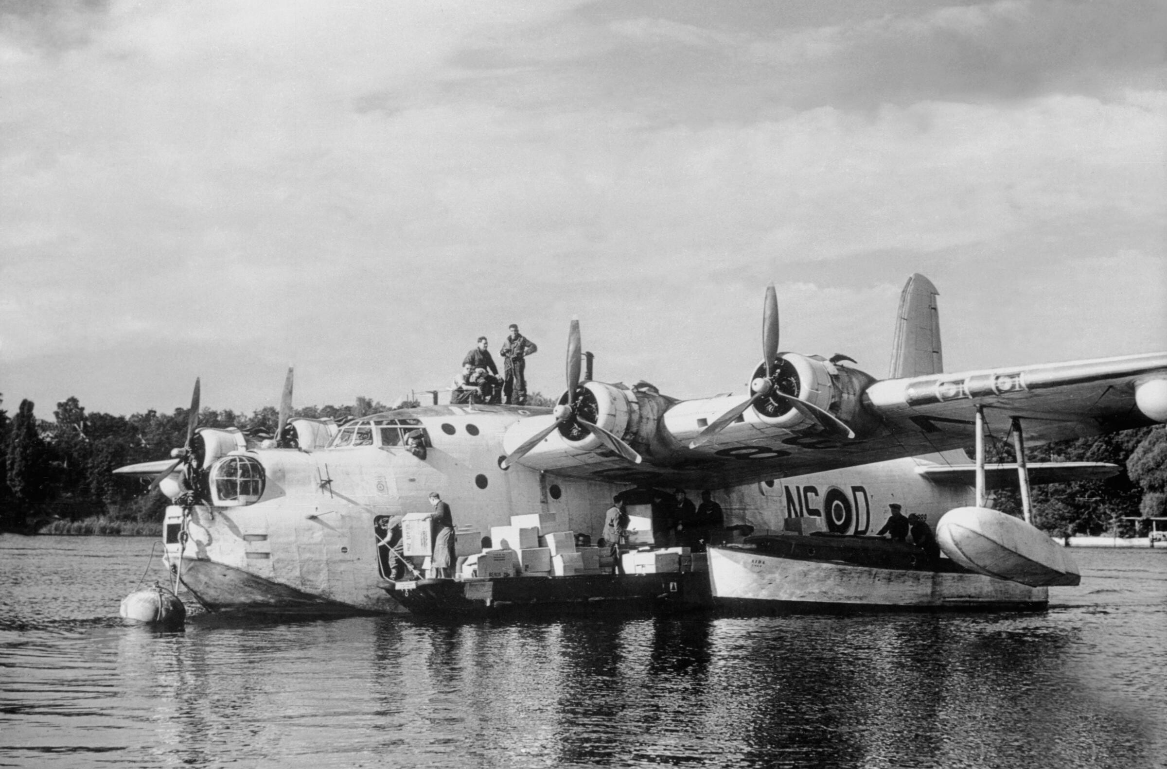 A Short Sunderland GR Mark 5 of No 201 Squadron, Royal Air Force, moored on the Havel in Berlin, Germany. The river Havel and lake Wannsee were used by Coastal Command Sunderlands from July until mid-December 1948, when the threat of winter ice suspended further use. The photograph shows members of the crew relaxing on the roof of their aircraft whilst their freight is unloaded.